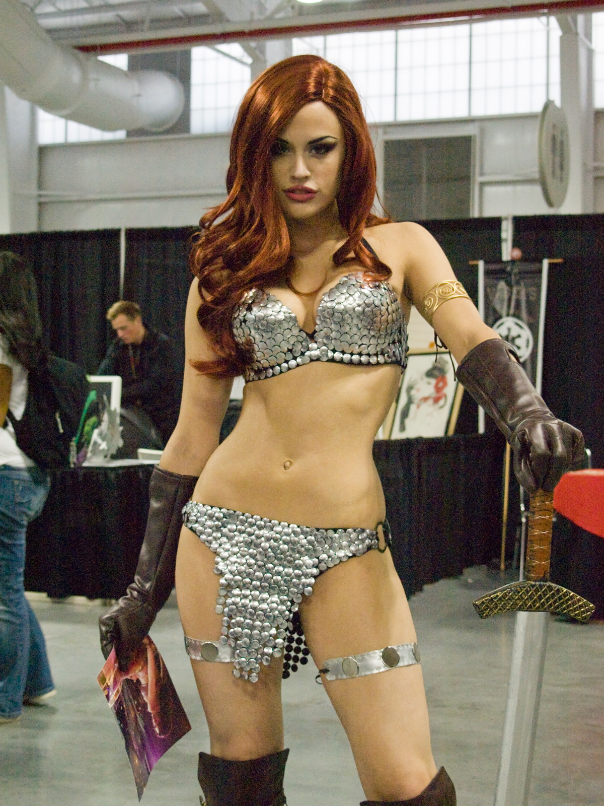 Cosplay of Red Sonja at the 2011 New York Comic Con.